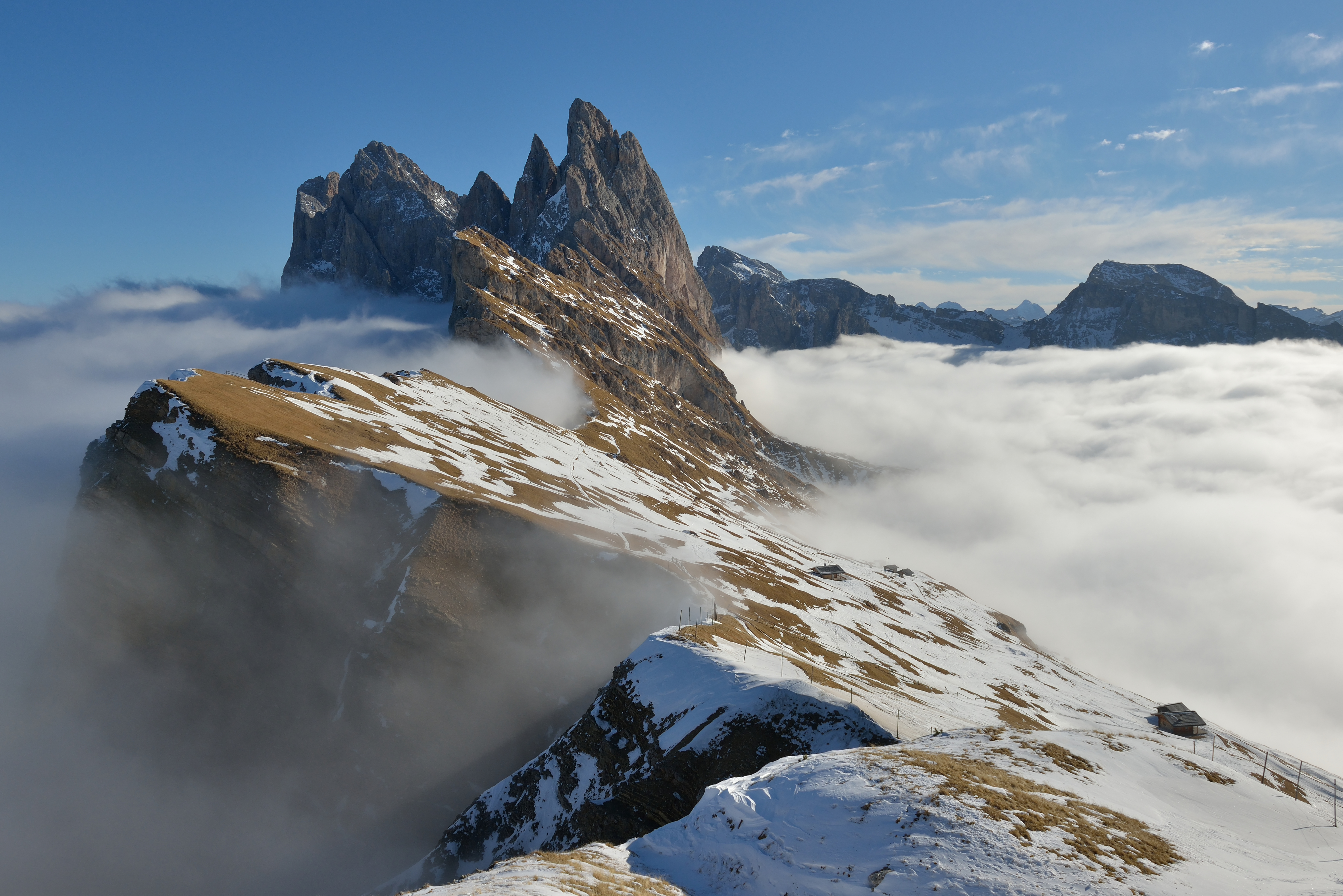 Early morning mist on the Odles and Stevia peaks in Val Gardena - From left to right: Sass Rigais, Gran Fermeda, Col dala Pieres.